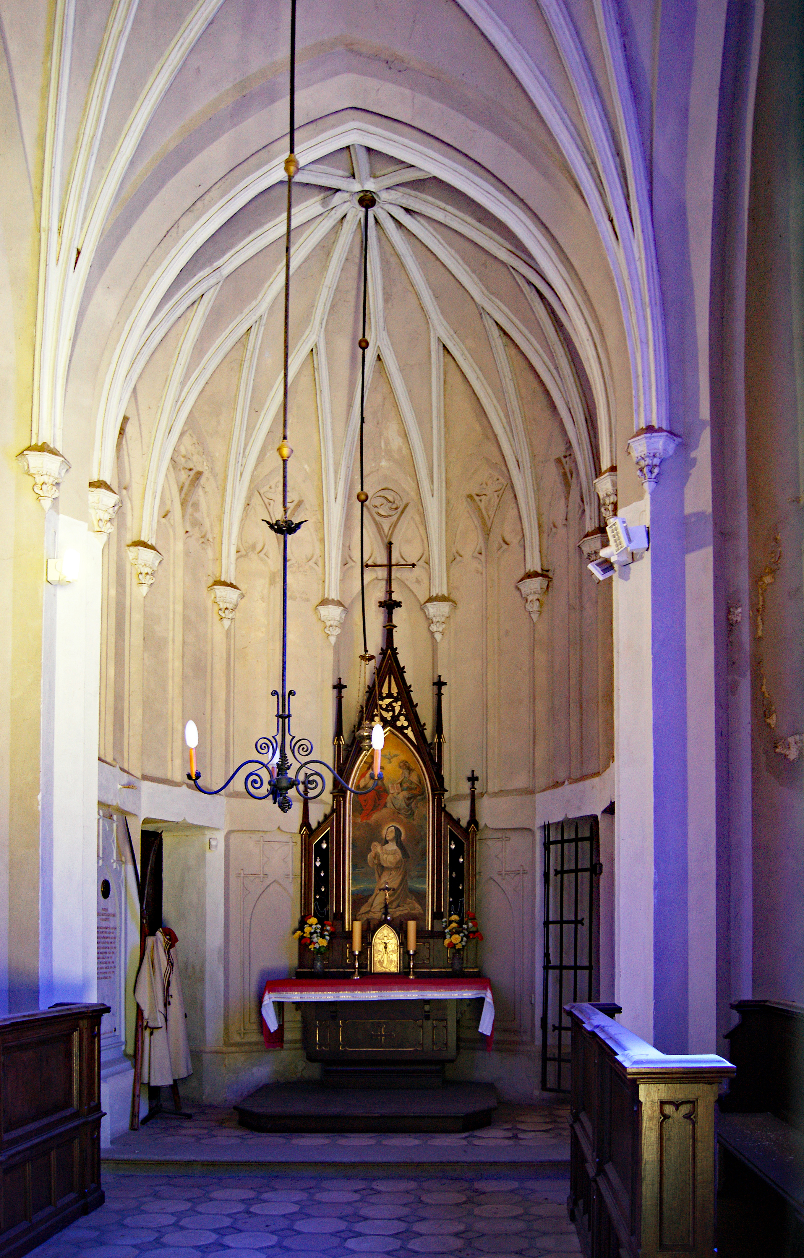 Blessed Bronisława Chapel (interior), 1 Waszyngtona Av, Krakow, Poland